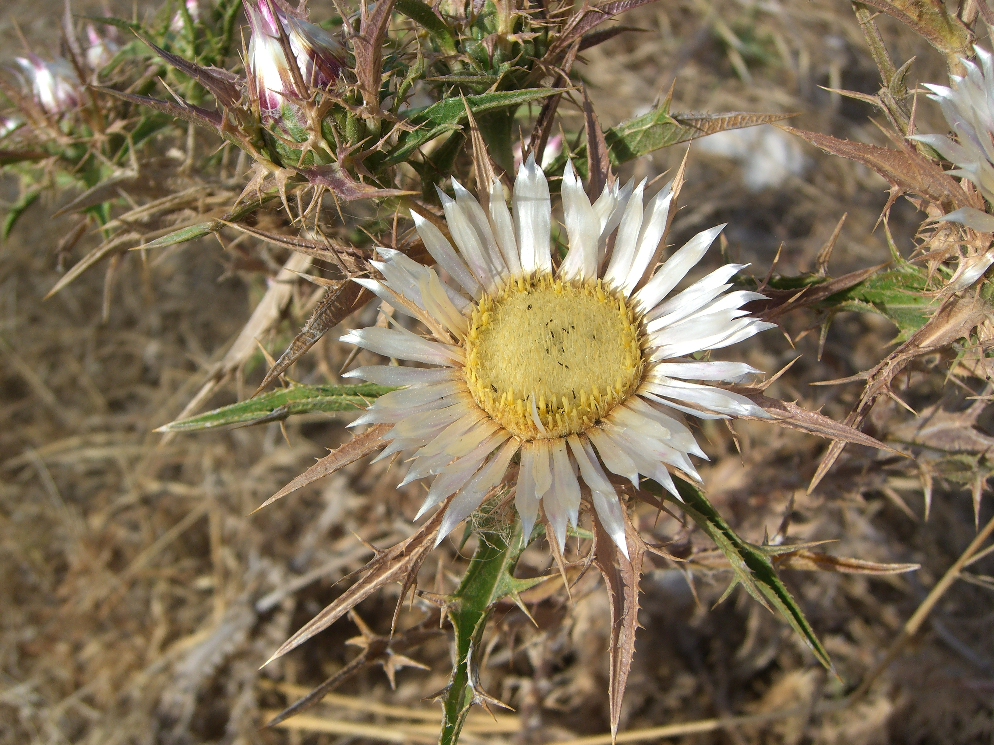 Carlina sicula Ten. a sicilian endemic plant, Asteraceae family. Photo taken at Addaura eastern slopes of Monte Pellegrino. By Giuseppe Ippolito.